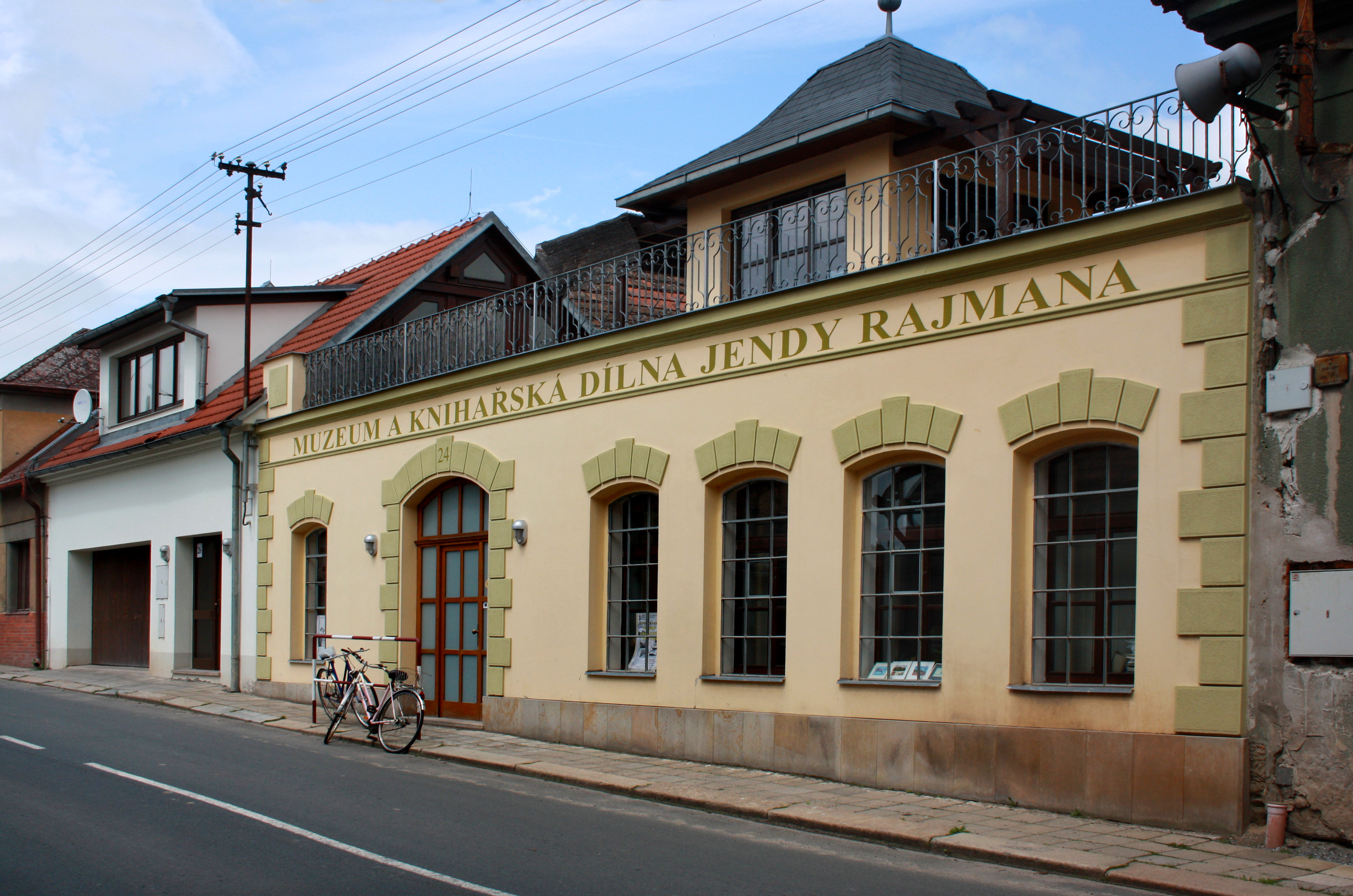 The bookbindery of the Classical Bookbinding Museum in Rožďalovice town, Czech Republic